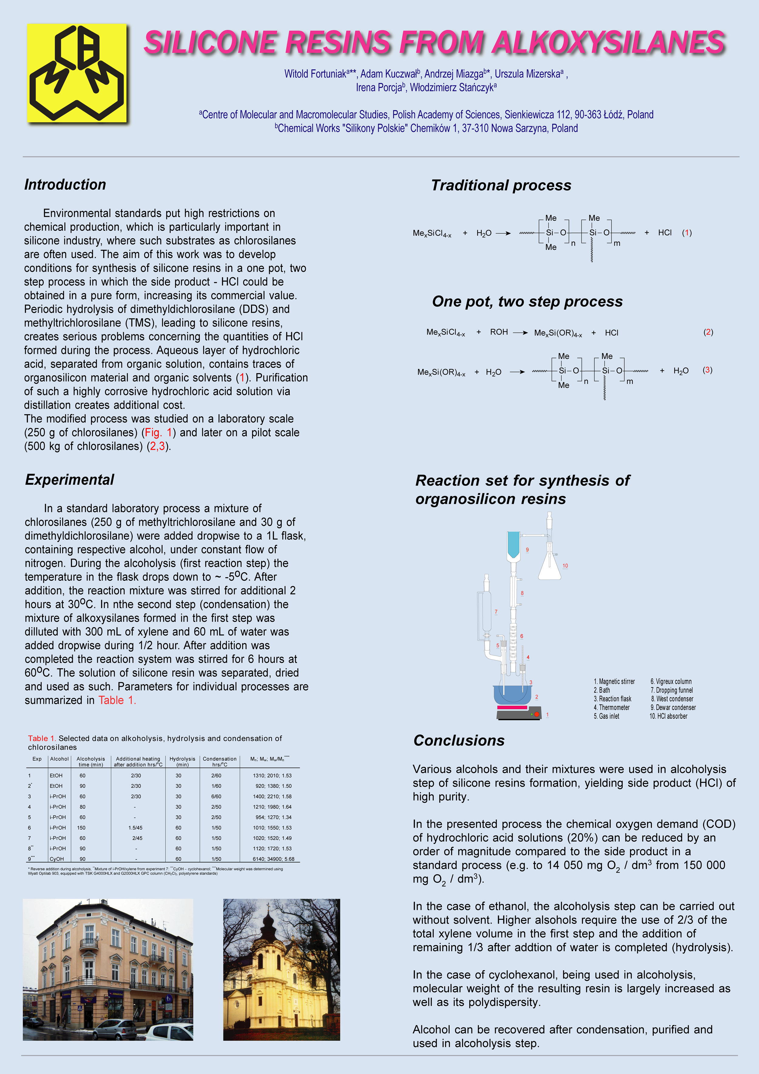 Exemplary scientific poster